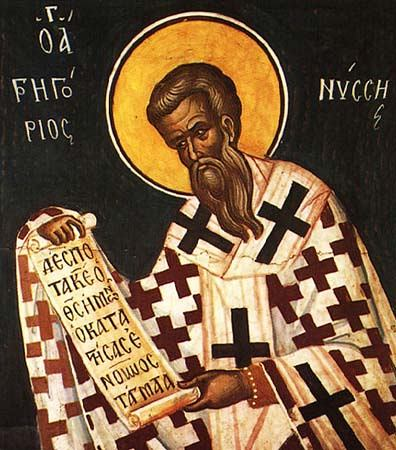 Gregory of Nyssa by Theophan the Greek, in Anapausas Meteora, Greece.